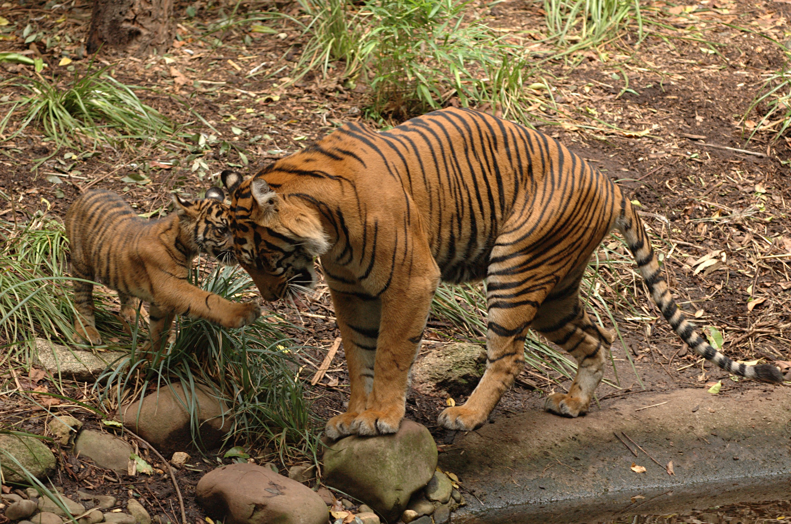 Sumatran Tiger adult and cub in Melbourne Zoo.